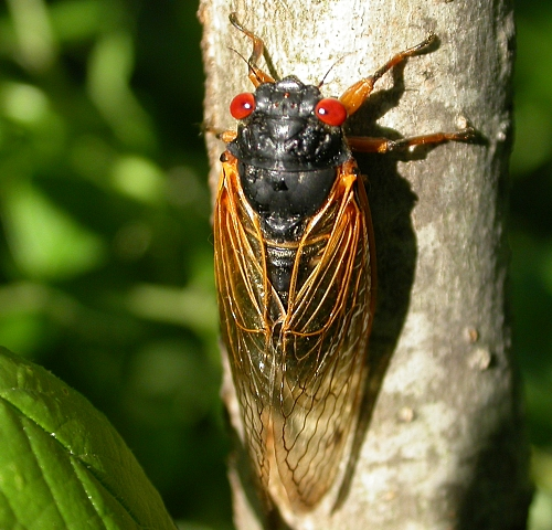 Imagines of Magicicada septendecim, 17-year-periodical cicada, 17-Jahr-Zikade, Danville, Illinois, USA